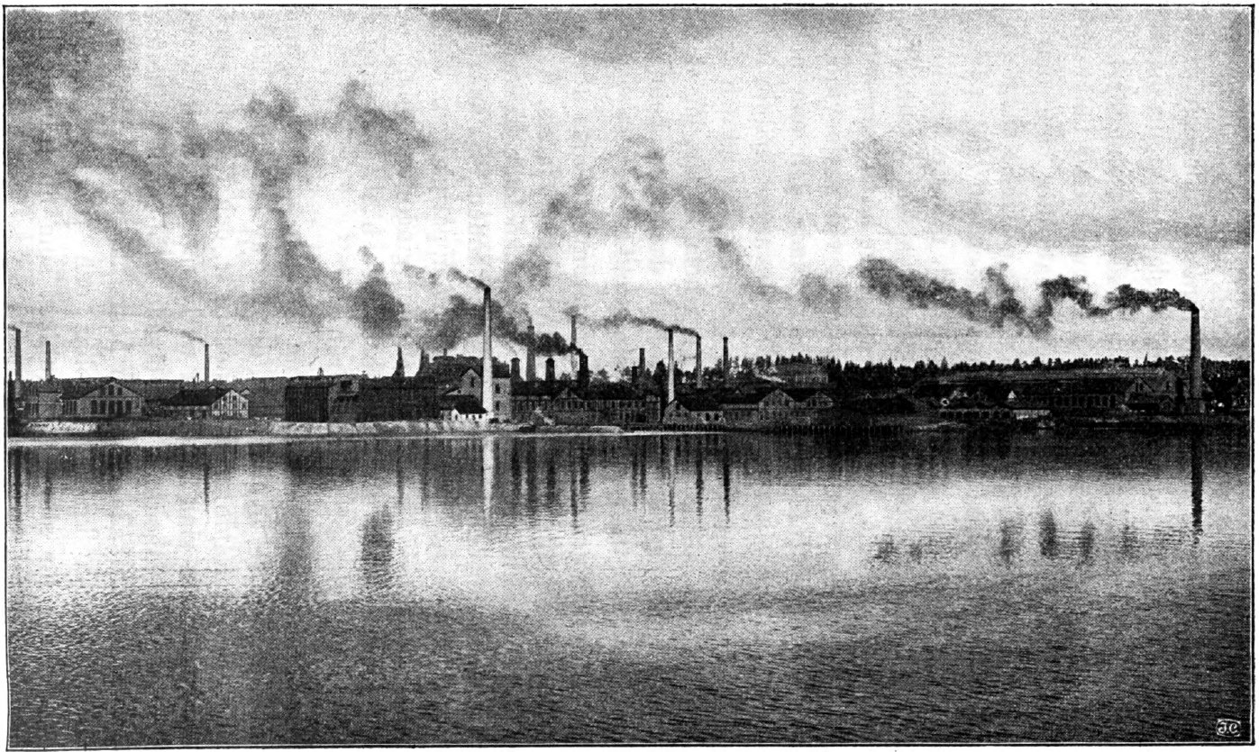 "Sandvikens järnverk." Illustration from Nils Holgerssons underbara resa genom Sverige by Selma Lagerlöf.